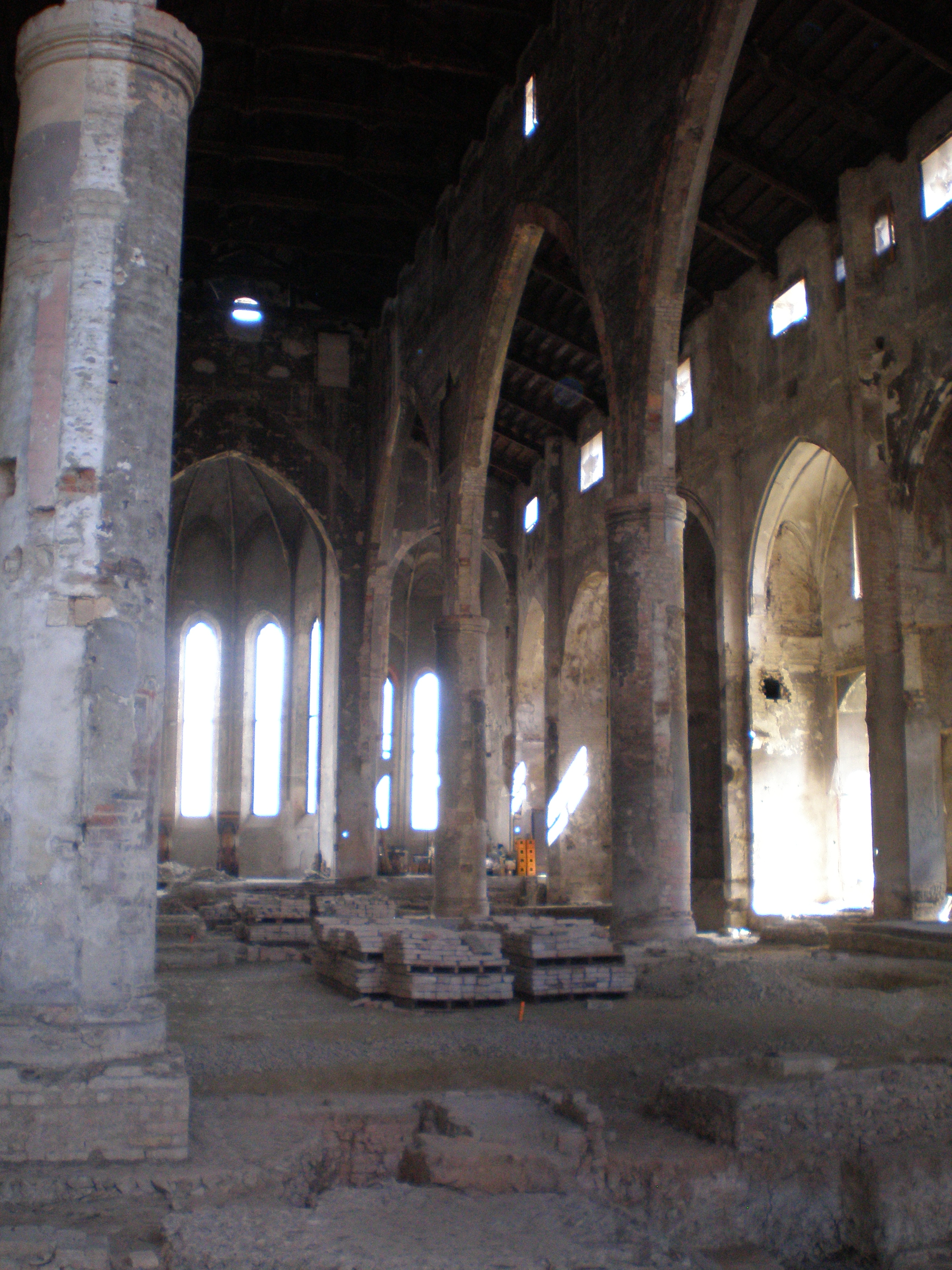 This is the interior of the gothich church of San Francesco del Prato in Parma. It's a francescan church, originally totally covered with frescos, which now are under a grey paint. At the beginning of 1800 it was transformed by Napoleon into a jail and divided in many floors in order to obtain rooms for the prisoners. Parmesans now collected 35000 signatures asking the restauration of the church and it's religious reopening.